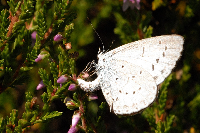 Picture taken in Commanster, Belgian High Ardennes . Species: Celastrina argiolus female laying eggs